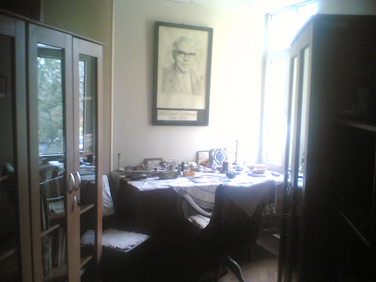 German composer Prof.Dr. Eduard Zuckmayer (1890-1972)